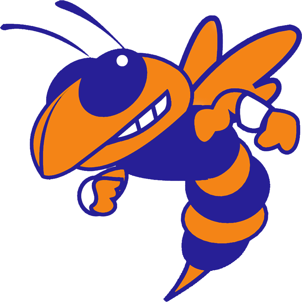 Bartow High School official mascot